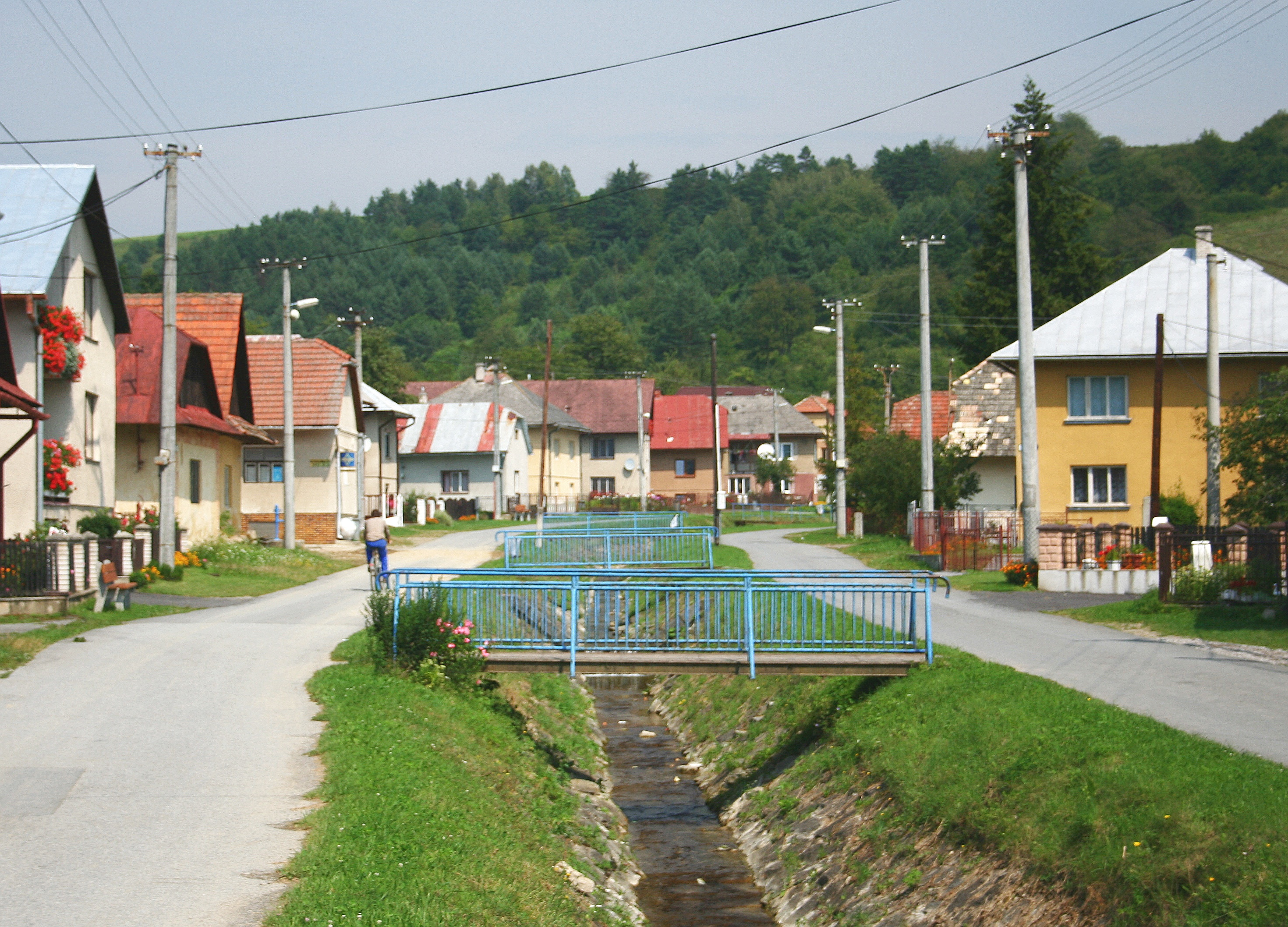 Rokytov - village in Slovakia